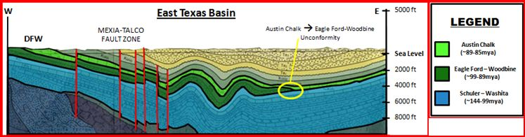 X-Section of the East Texas Basin and display of the middle Cretaceous unconformity that is responsible for the sealing of the well known East Texas petroleum reservoir of the Woodbine formation.